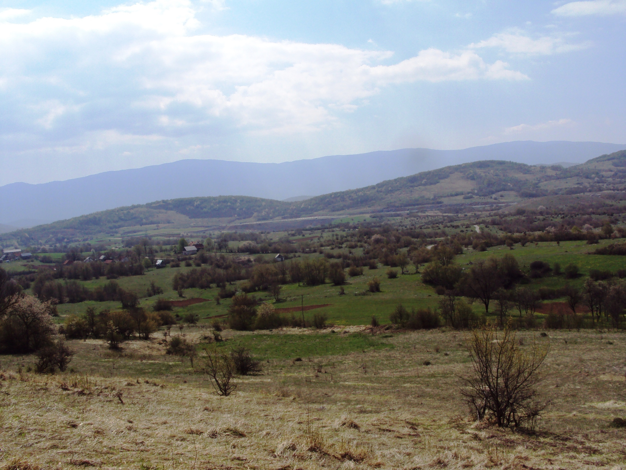 The village of Brloška Dubrava near Otočac, Region of Lika, Croatia